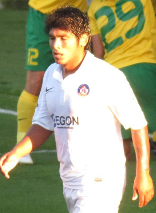 Photo - Argentine footballer Aldo Omar Baéz